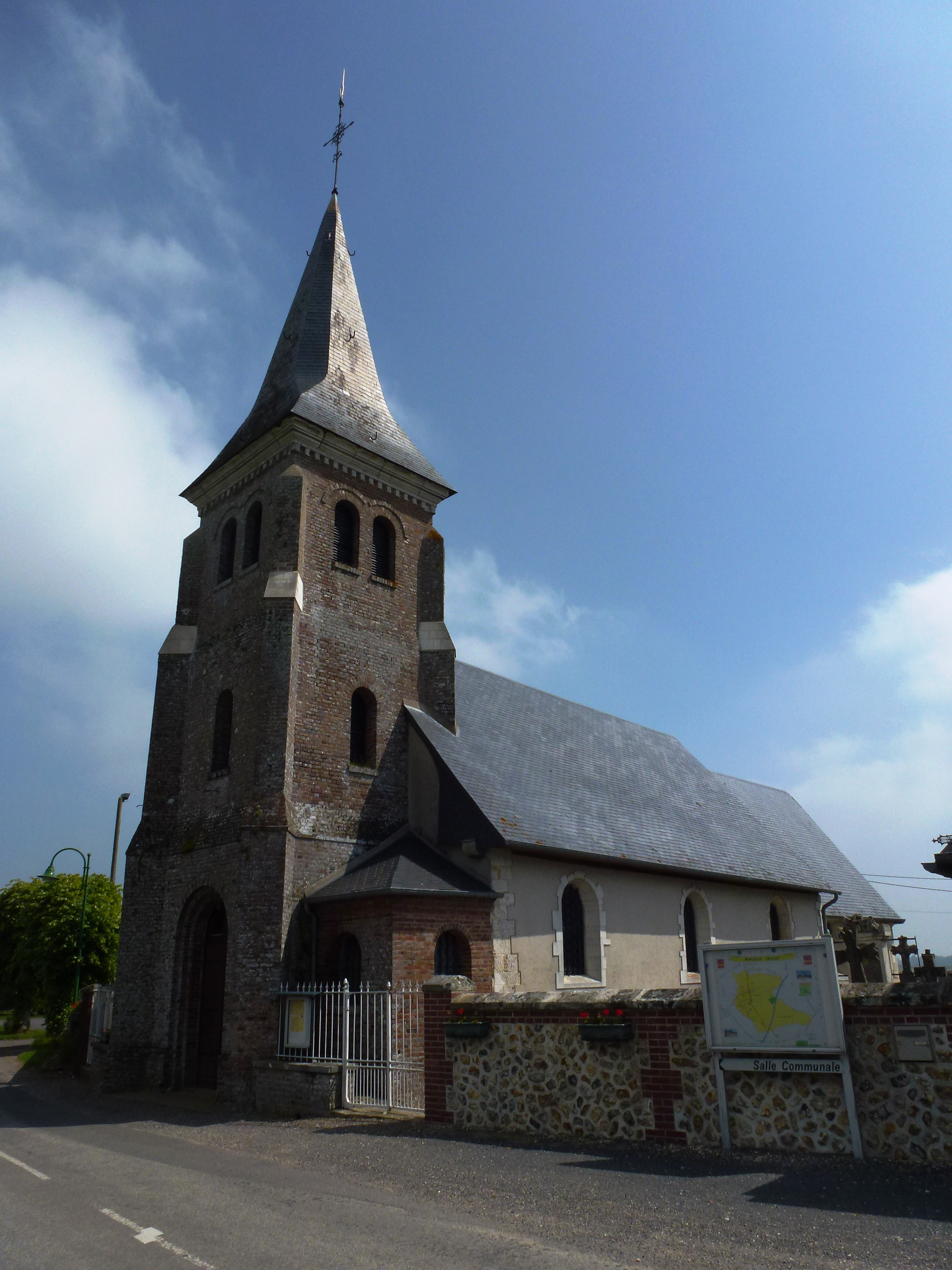 Malouy (Eure, Fr) église Saint-Pierre.